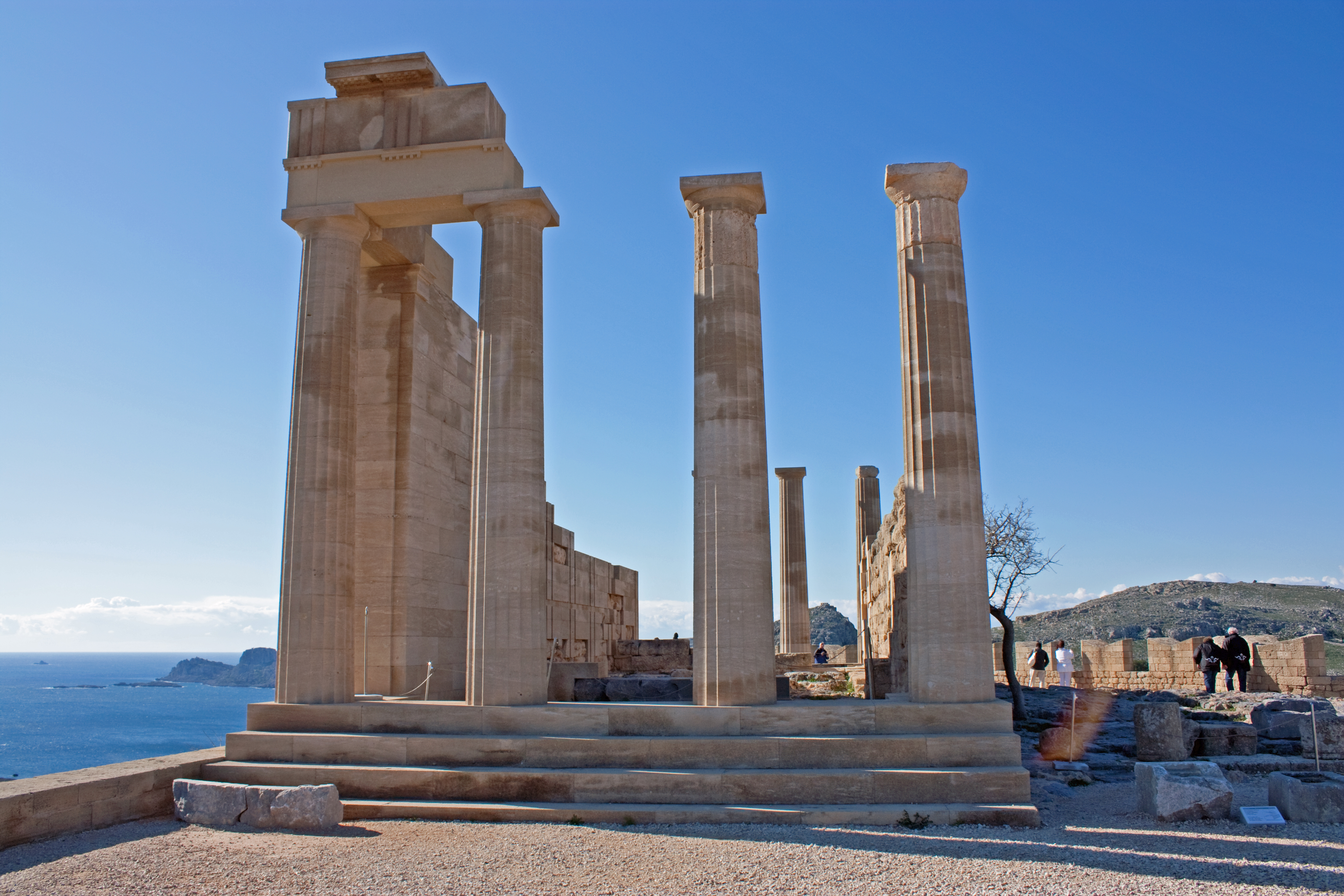 North end of the Temple of Athena Lindia at the acropolis of Lindos in Rhodes, Greece.